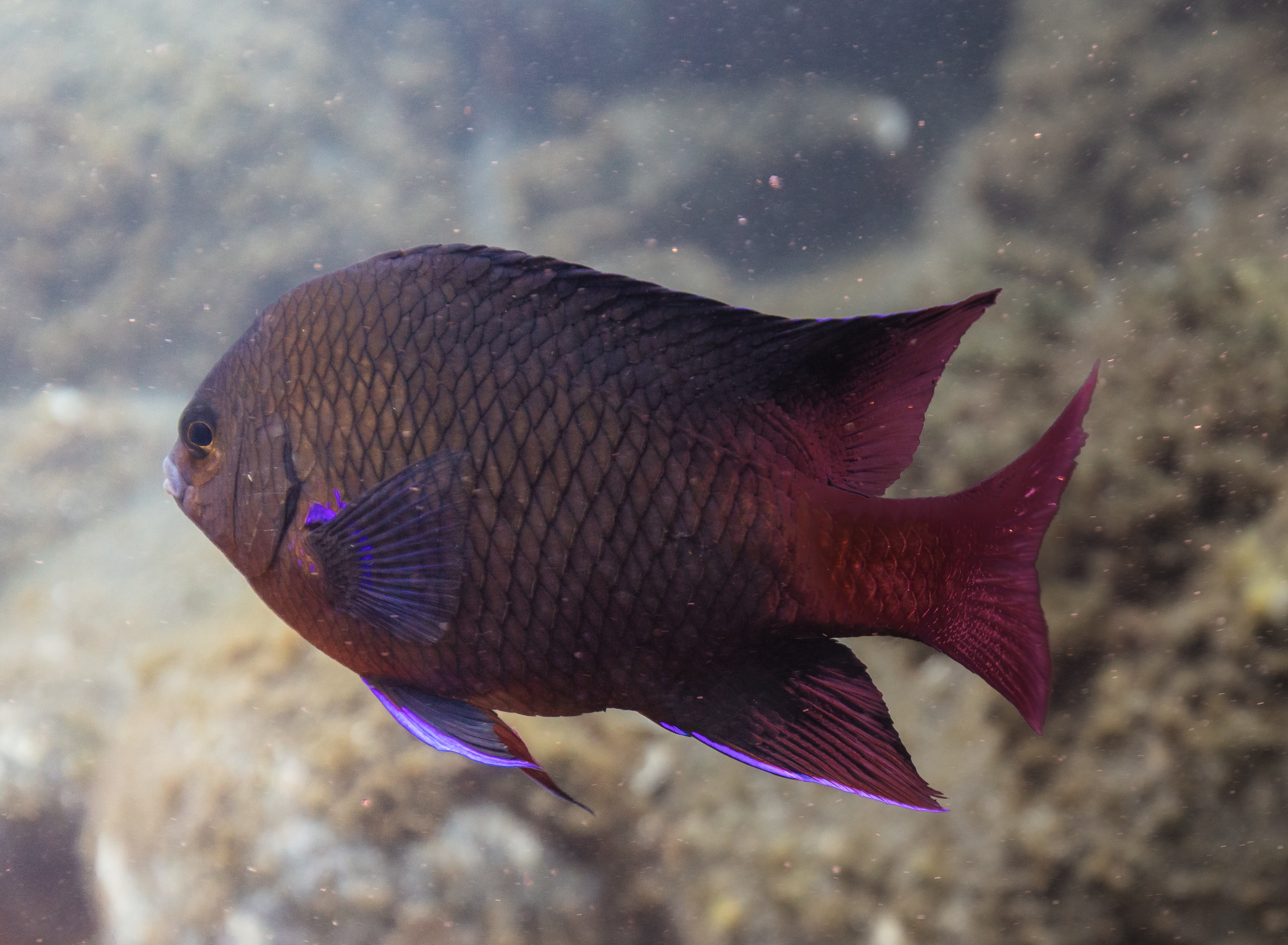 Canary damsel (Abudefduf luridus), Madeira, Portugal